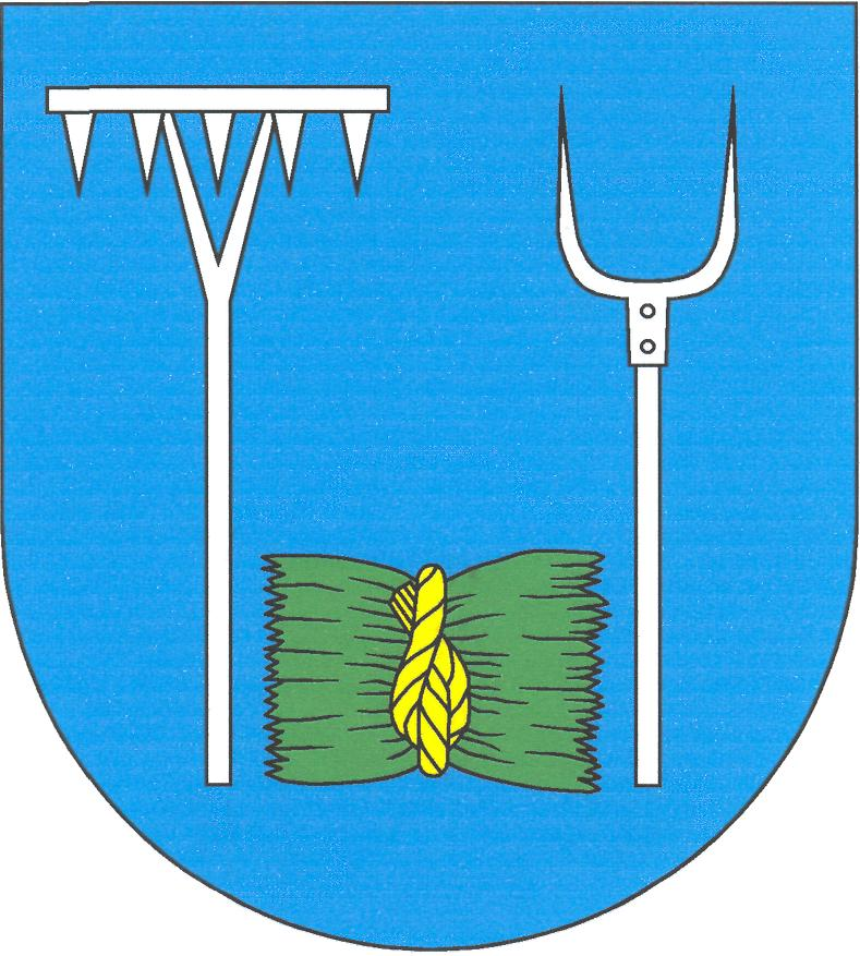 Coat of amrs of Senomaty , District Rakovník, Czech Republic